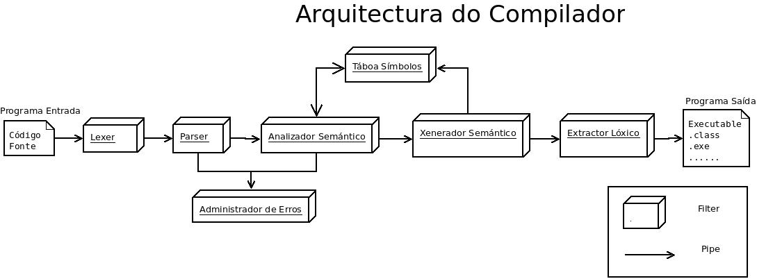 analizadores léxicos